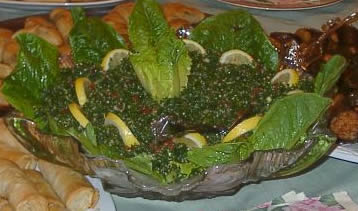 Tabouli with lemons and lettuce